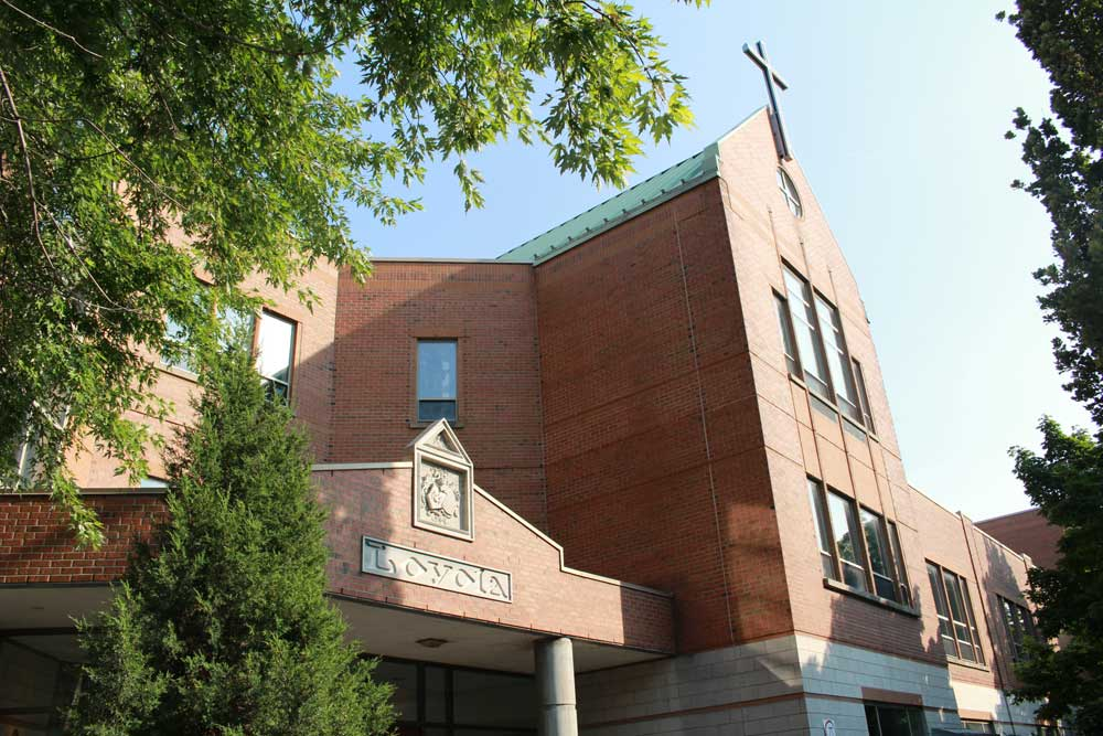 North façade of Loyola High School building